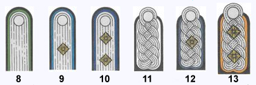 Rang insignia of the Waffen-SS until 1945 – shoulder straps 8 Untersturmführer (OF1b), weapon colour medow green to SS-Mountain troops 9 Obersturmführer (OF1a), weapon colour light blue to SS-Supply logistics, field postal 10 Hauptsturmführer (OF2), weapon colour bright blue to SS-Administration 11 Sturmbannführer (OF3), weapon colour white to SS-Infantry troops 12 Obersturmbannführer (OF4), weapon colour cornflower blue to SS-Medical service 13 Standartenführer und Oberführer (OF-5), weapon colour kupferbraun to SS-Reconnaissance.